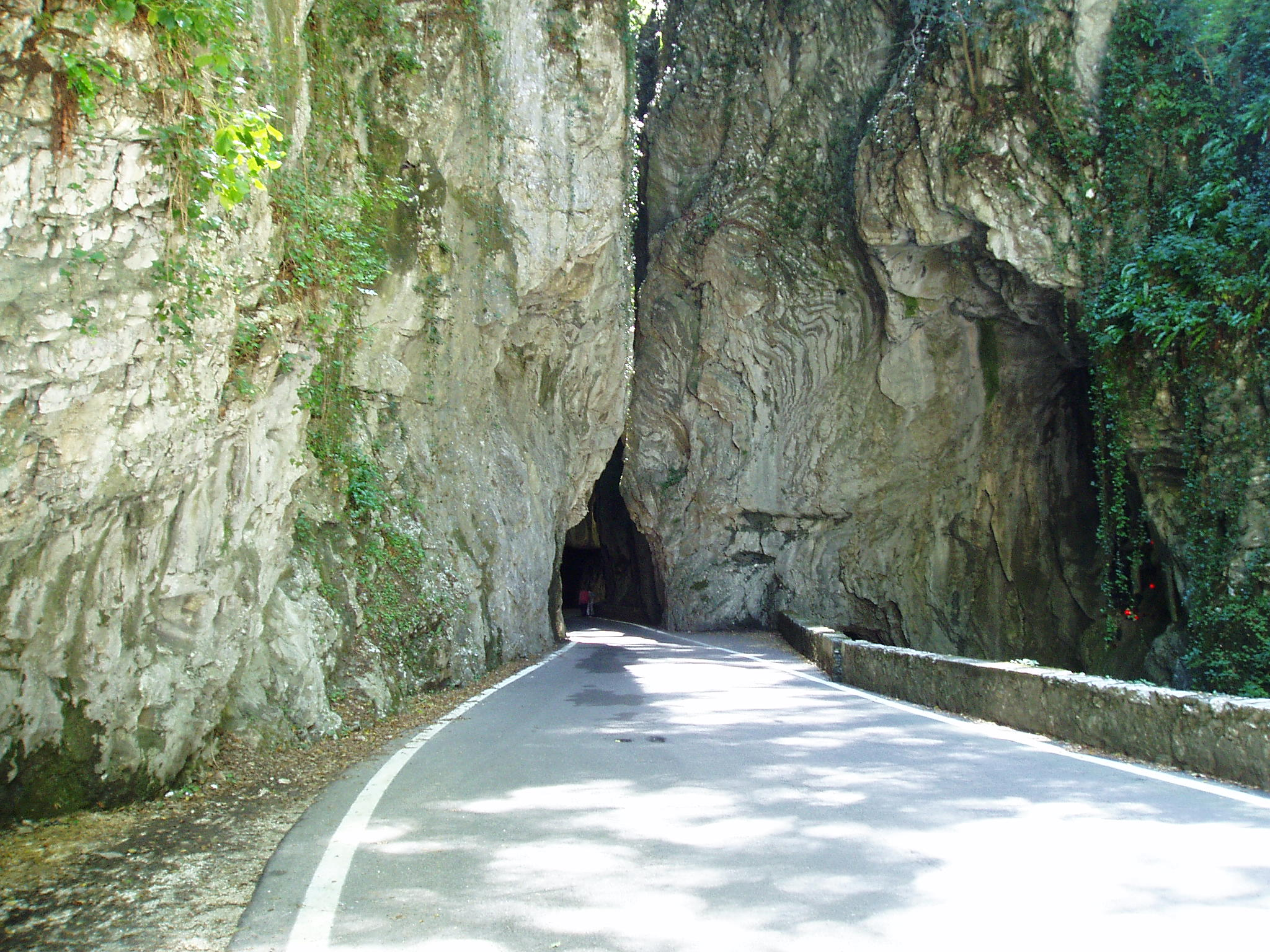 Entrance in Tremosine's cave